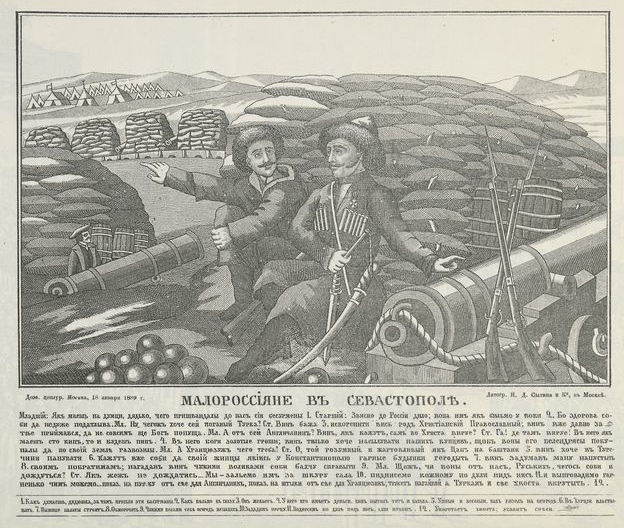 A lubok style print "Little Russians in Sevastopol" ("Малороссіяне въ Севастополѣ"). It depicts two Ukrainian Cossacks of the Russian Army during Crimean War. The title is in Russian and sayings in Ukrainian (Ukrainian sayings about the Crimean War beneath the image with short Russian paraphrasing). See description: Stanford Library, Livejournal